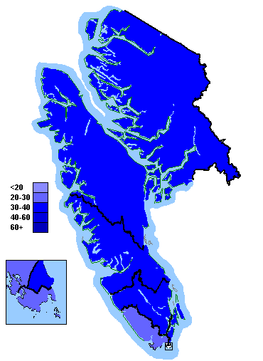 Map made by uploader (User:Earl Andrew); see [1] (question about source) and [2] (response).